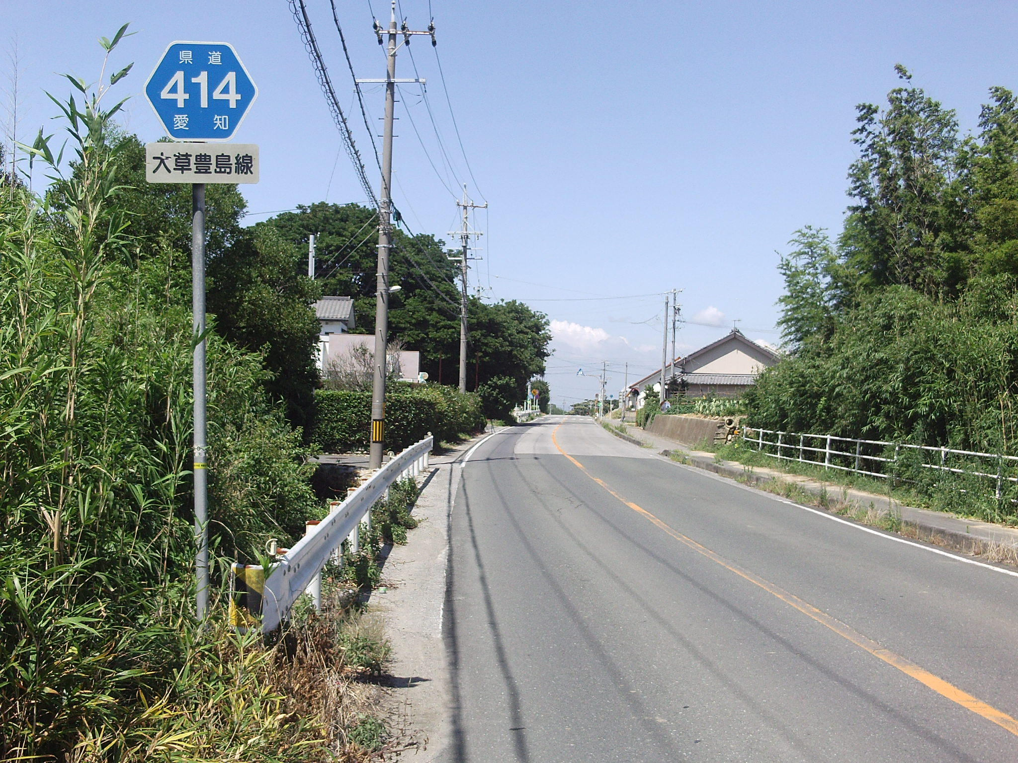 Aichi prefectural road No.414 in Okusacho, Tahara, Aichi.